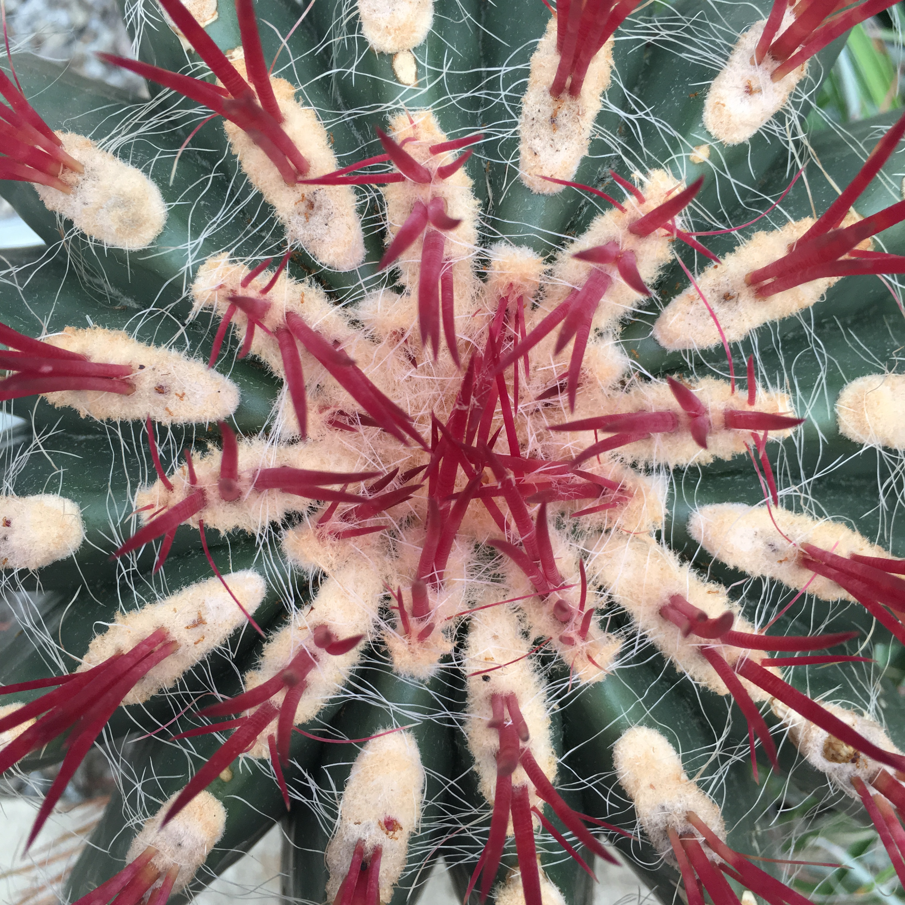 Ferocactus pilosus (detail of growing point), photographed at Kew Gardens in 2018